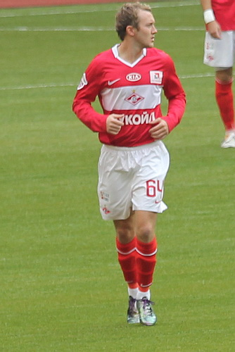 Aiden McGeady